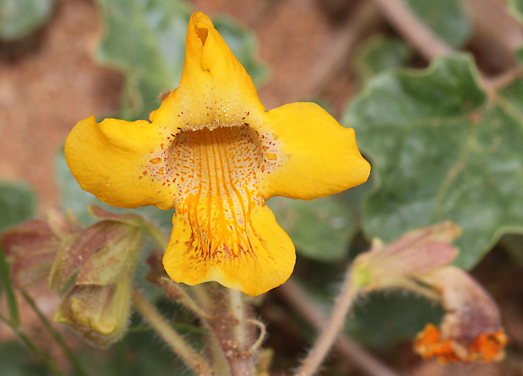 ARIZONA - FLOWERS